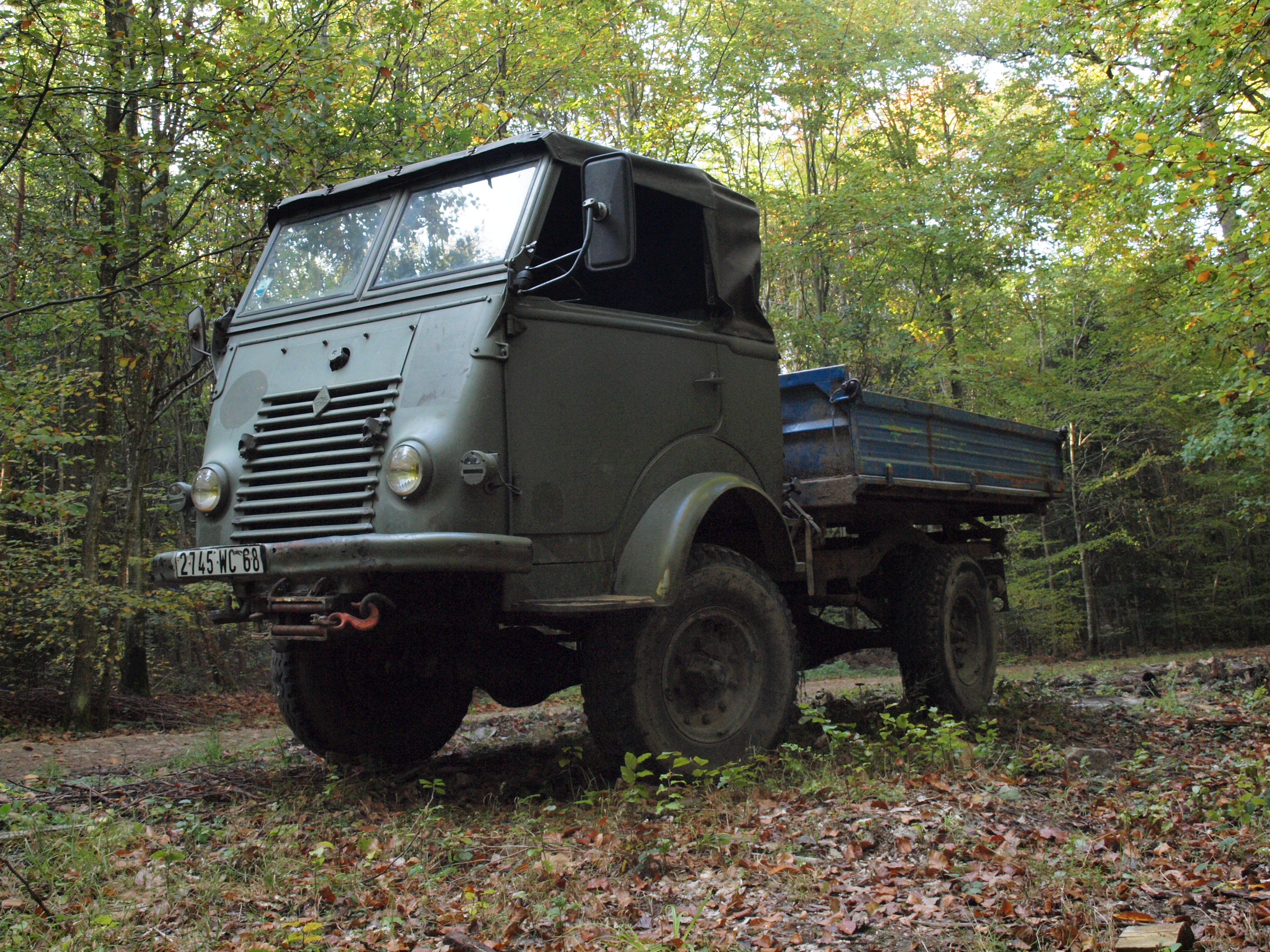 Vintage military truck in France : Renault R2087